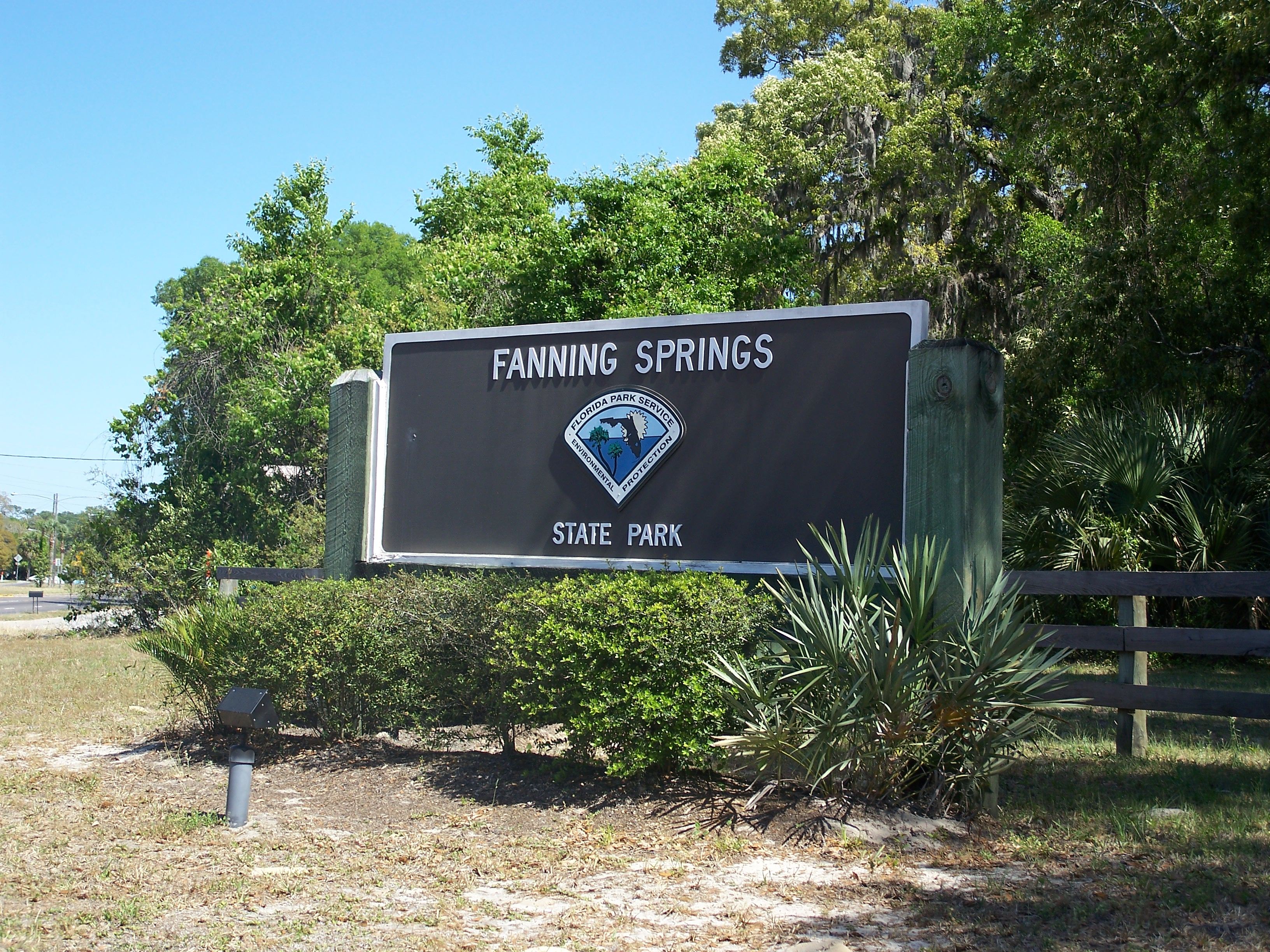 Entrance to Fanning Springs State Park, in Fanning Springs, Florida